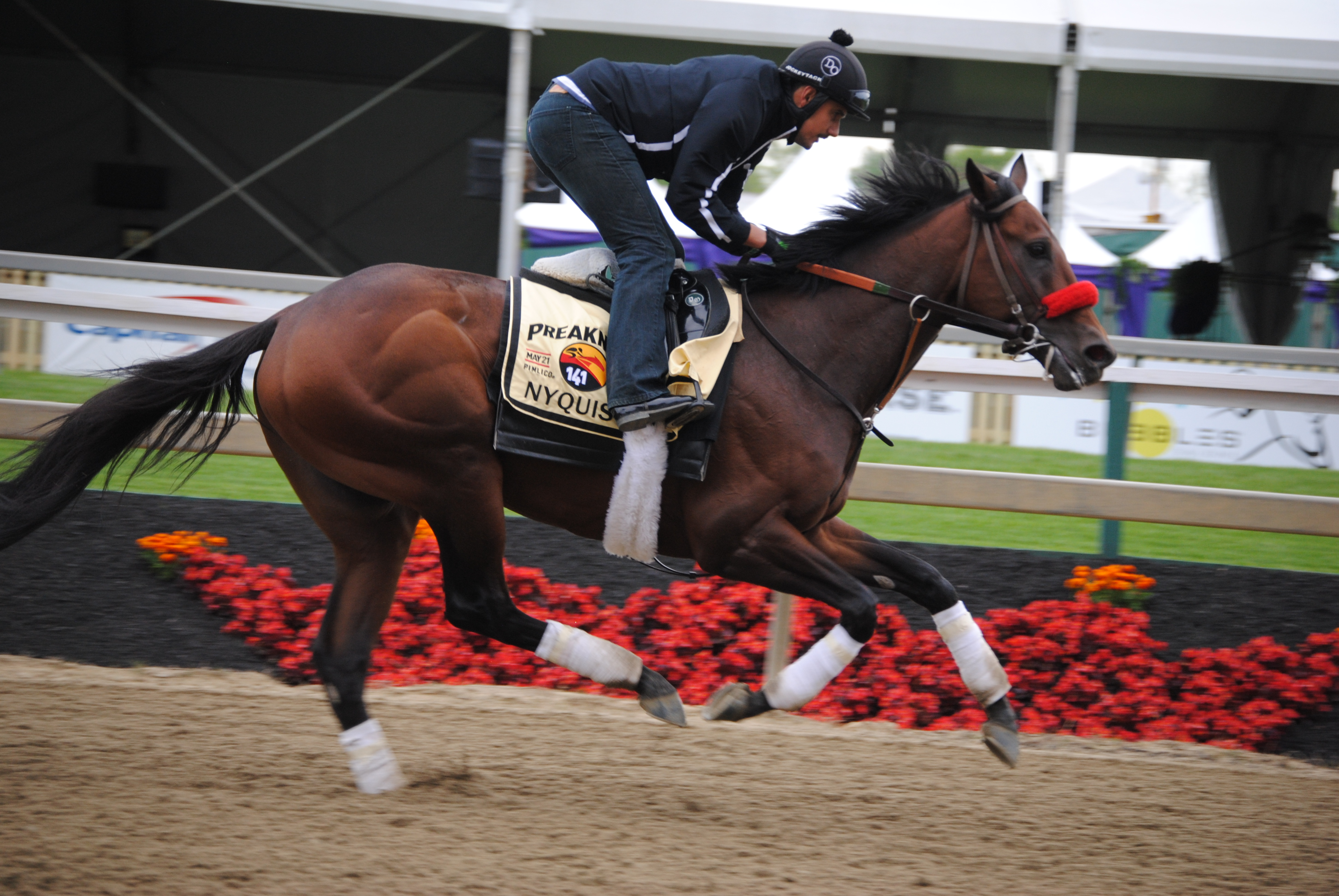 Nyquist in training for the 2016 Preakness